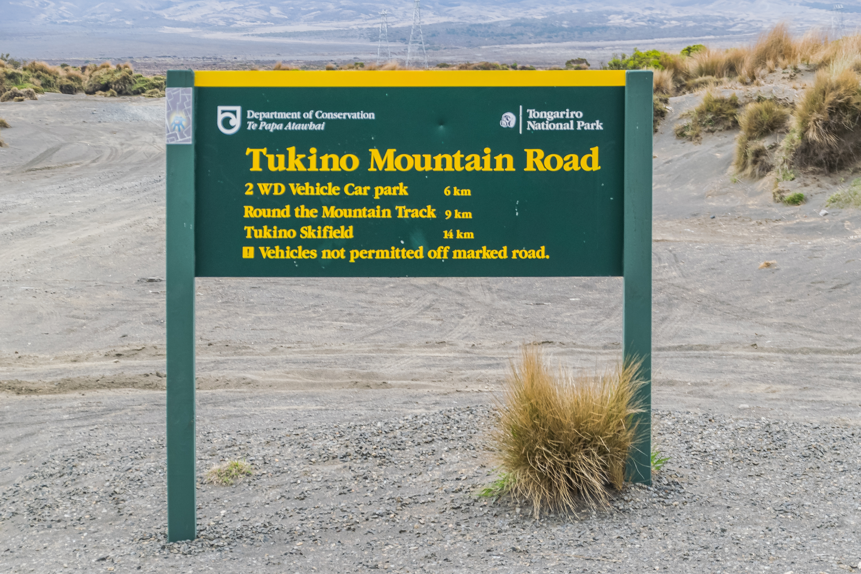 Information board about Tukino Mountain Road, Manawatu-Whanganui Region, North Island of New Zealand